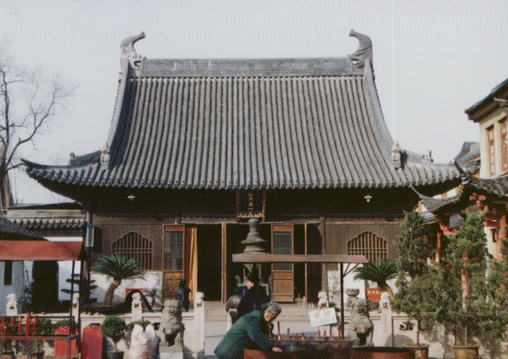 更多haier7917的中国古建照片/ more photos of ancient chinese architecture by haier7917：